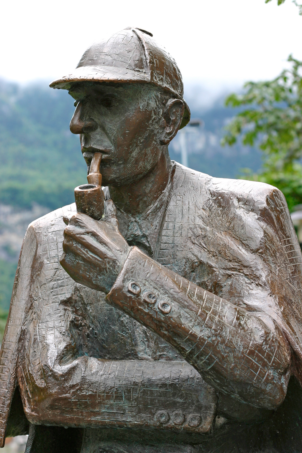 Statue of Sherlock Holmes at Meiringen, Switzerland. Created by British sculptor John Doubleday. Unveiled on the 10th September 1988